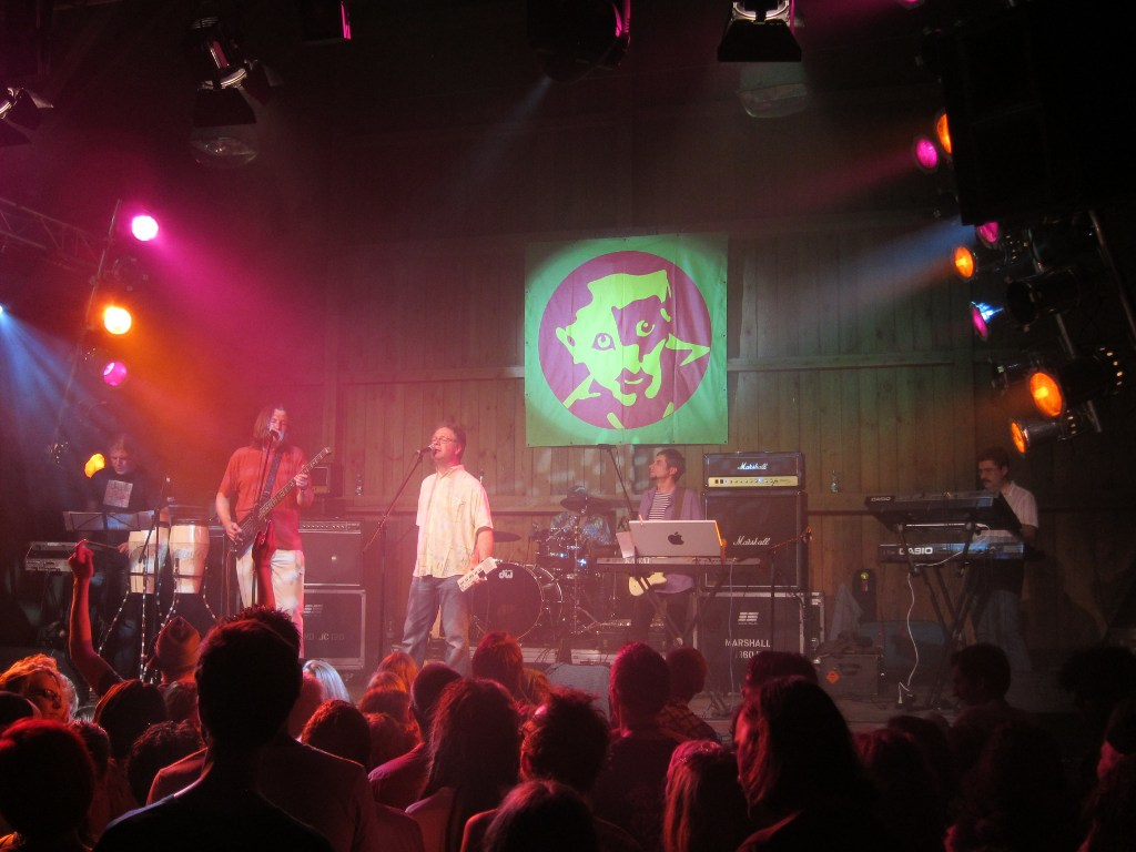 Latvian band Dzeltenie pastnieki performing in LabaDaba festival, 2012.08.03